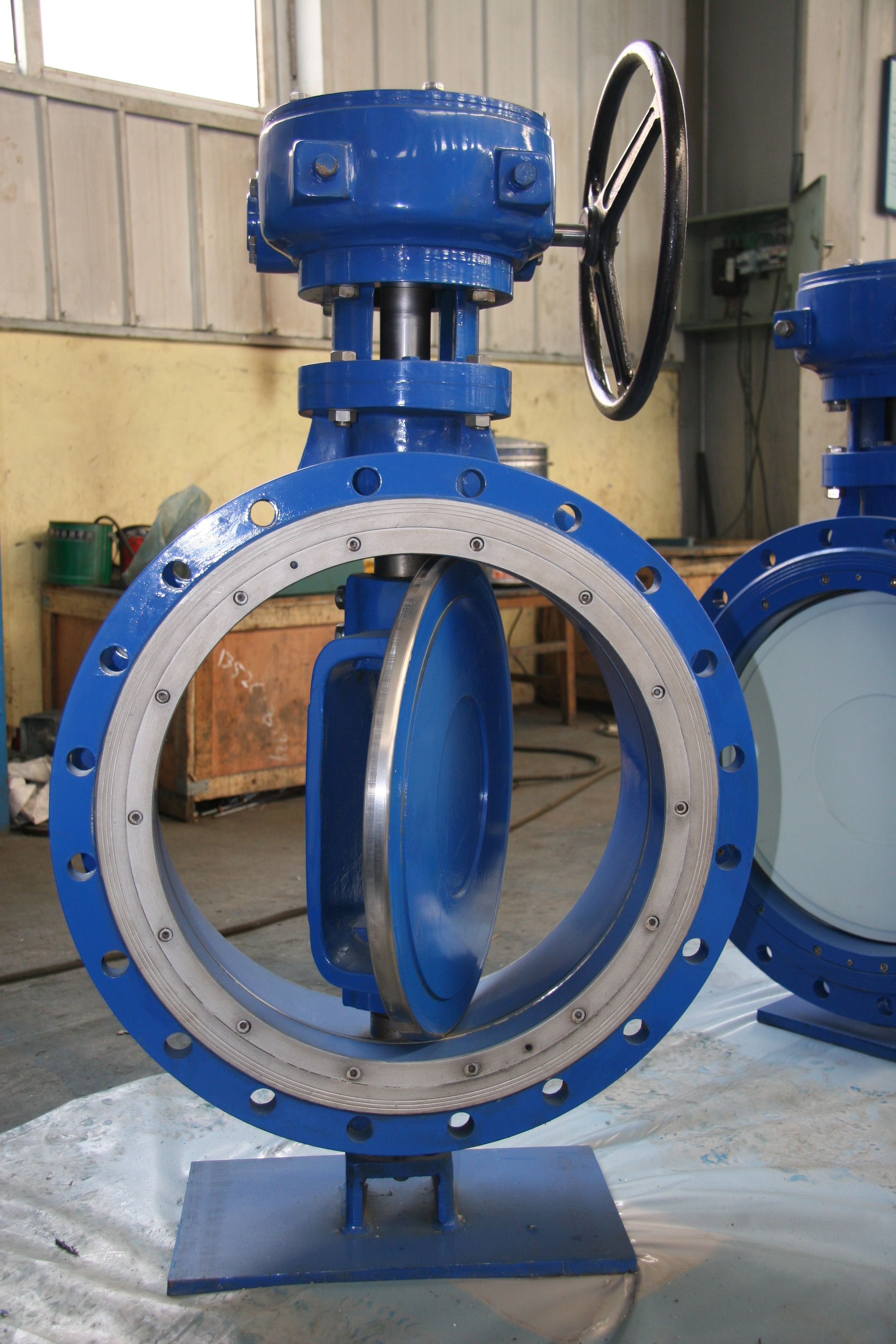 Butterfly valve. Valves and are generally made of plastic or steel, the latter being the most widely used in chemical and petrochemical applications. Steel grades range from the most common type, namely carbon steel, with standard stainless steel being the second most common. Stainless steel alloys, which include nickel or copper are used in applications that require higher corrosion or heat resistance. In such cases, the most commonly used valve configurations -- ball valves, gate valves, check valves, globe valves and butterfly valves -- are often forged or cast as duplex valves, super duplex valves, alloy 20 valves, monel valves, inconel valves, incoloy valves and 254 SMO valves (6Mo valves). Titanium valves are also used in some highly corrosive applications. Titanium is not a stainless steel alloy.